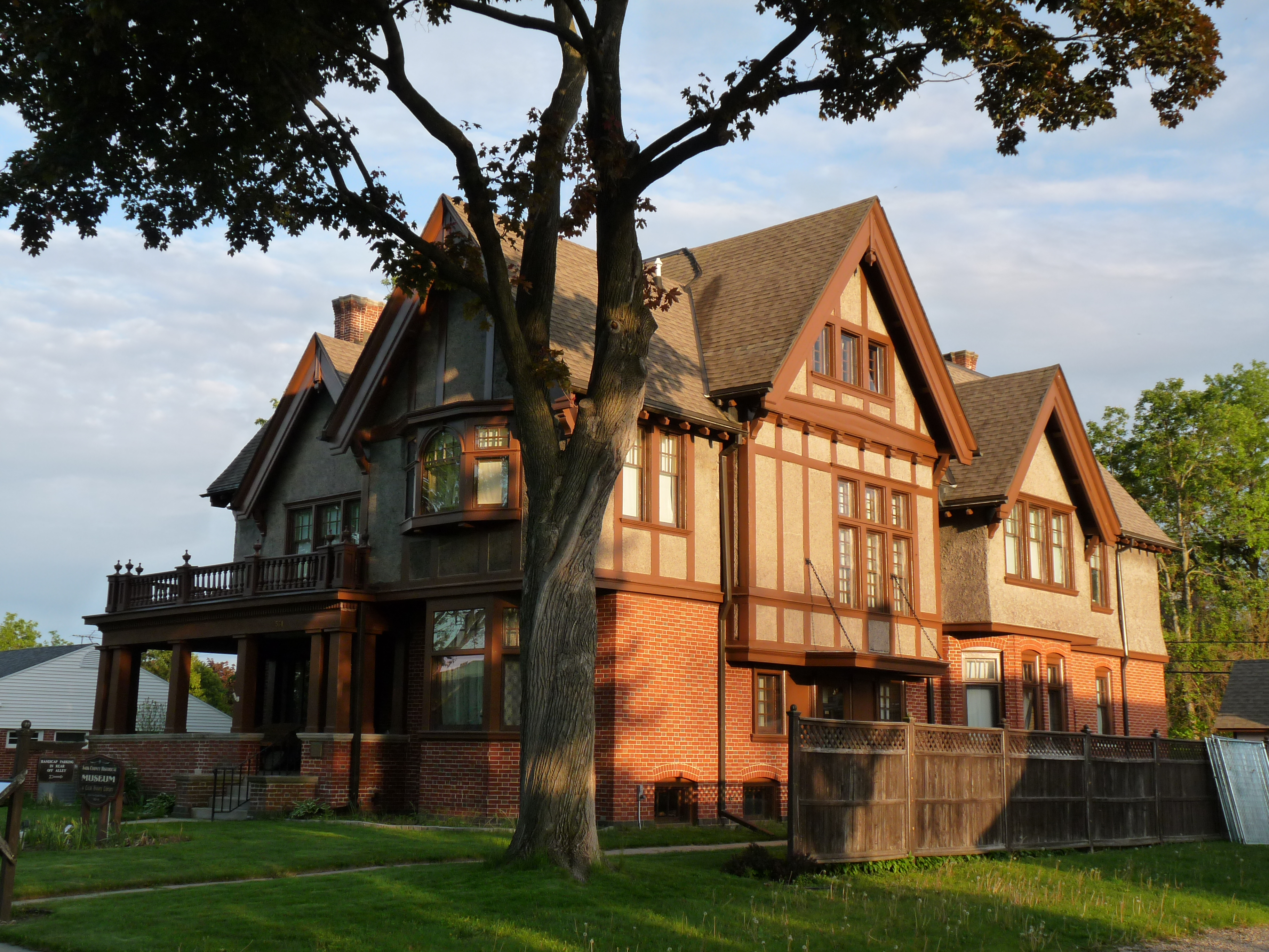 This Tudor Revival house in Baraboo, Wisconsin was built in 1903. Van Orden was a banker in Baraboo. Today the house is listed on the National Register of Historic Places, and houses the Sauk County Historical Museum.